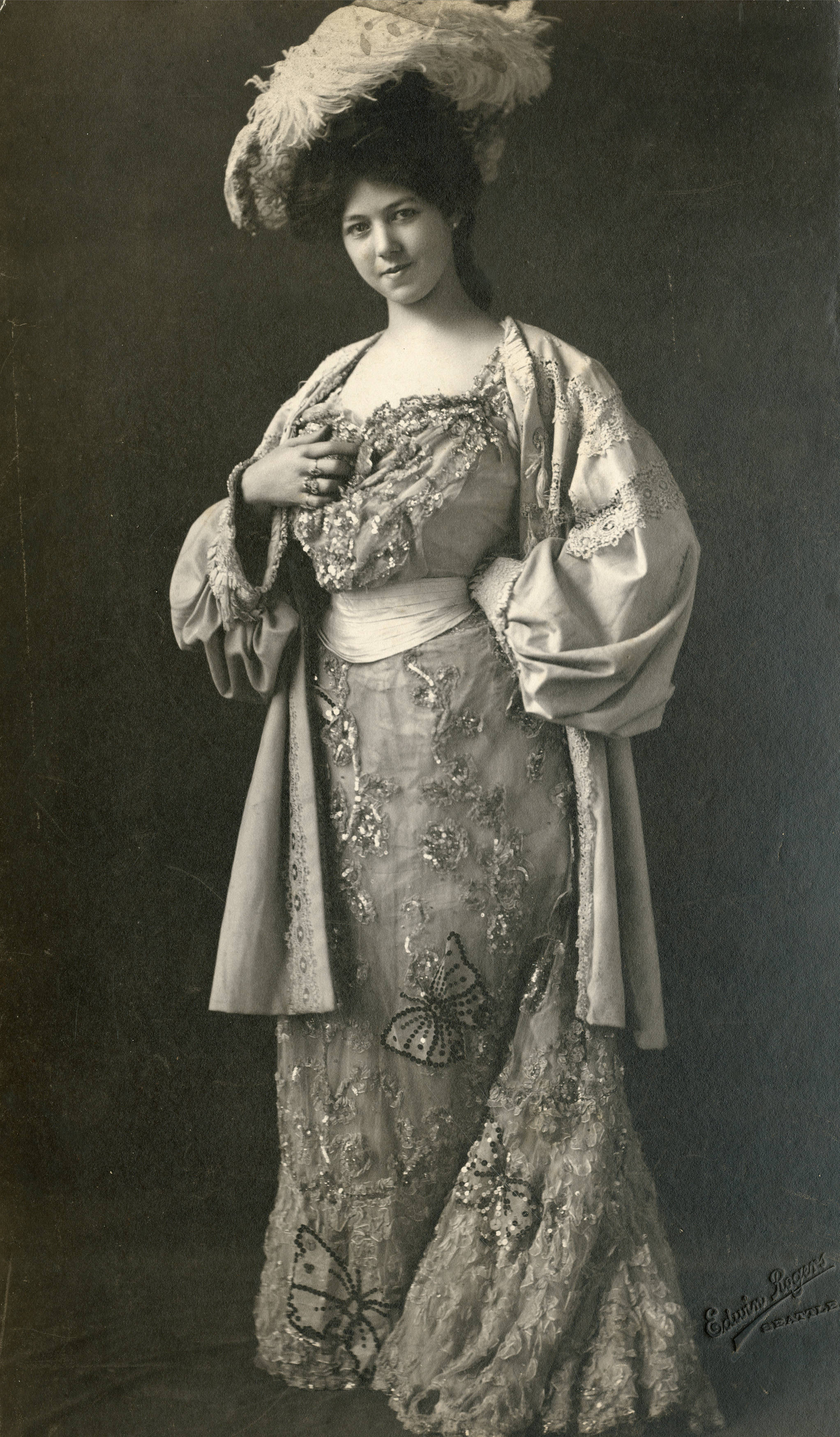 Klondike Kate, stage actress Kate Rockwell Subjects: actresses